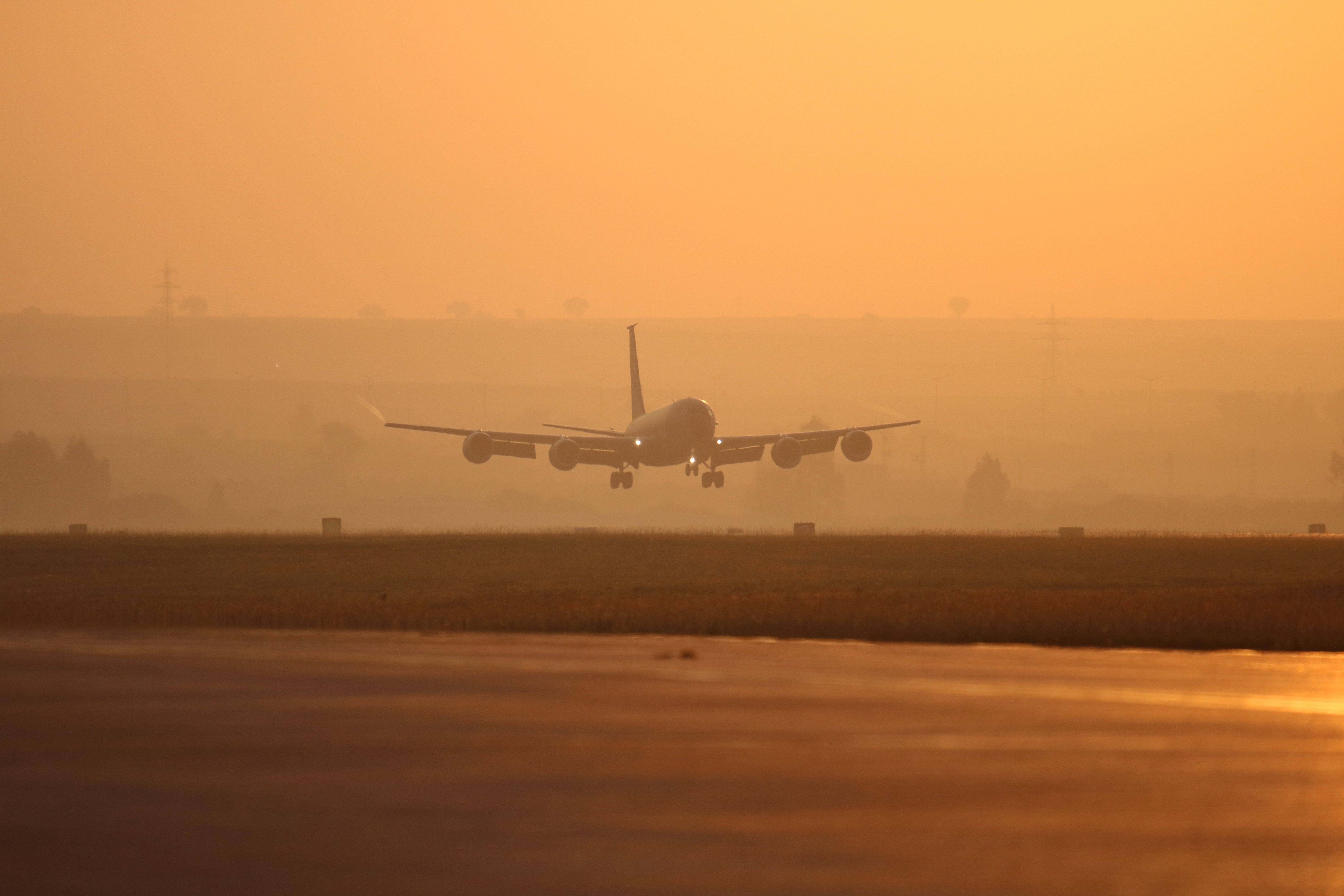 22 EARS NH A3506 sunrise landing 2 Jul 16